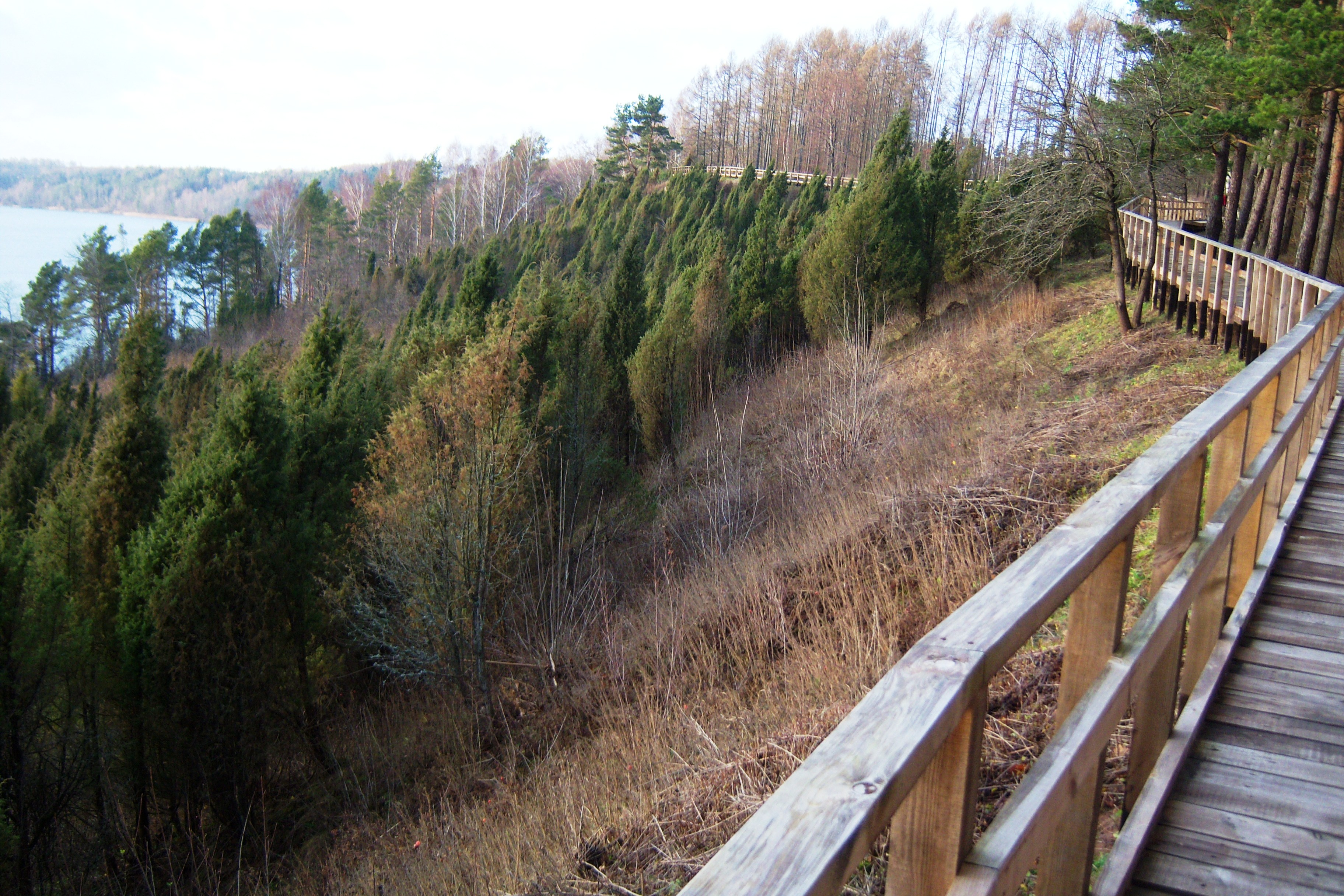 Juniper valley on the shore of Kauno Marios reservoir, botanical reserve, Kaunas district, Lithuania